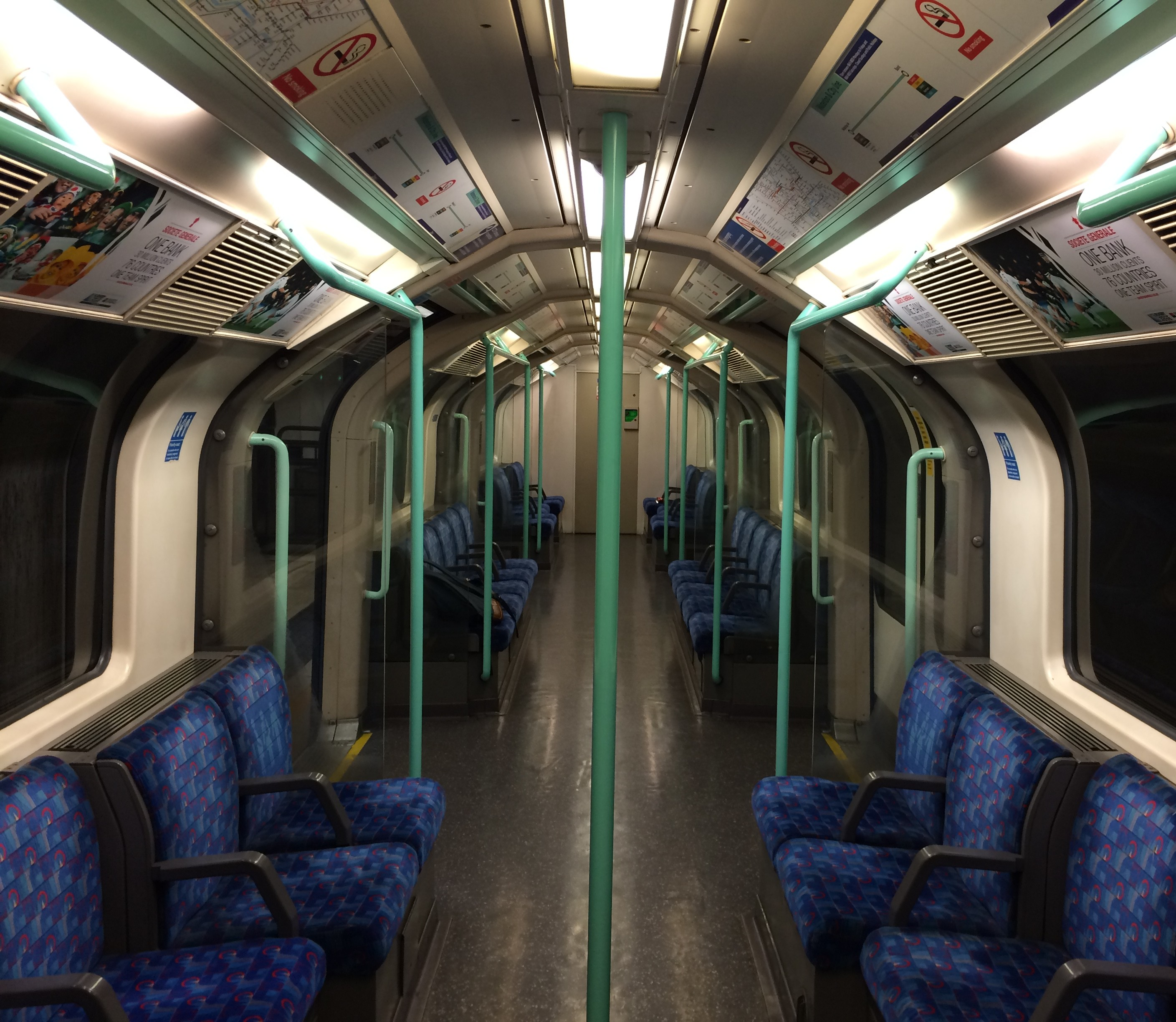 Interior of a 1992 Stock on the Waterloo and City Line